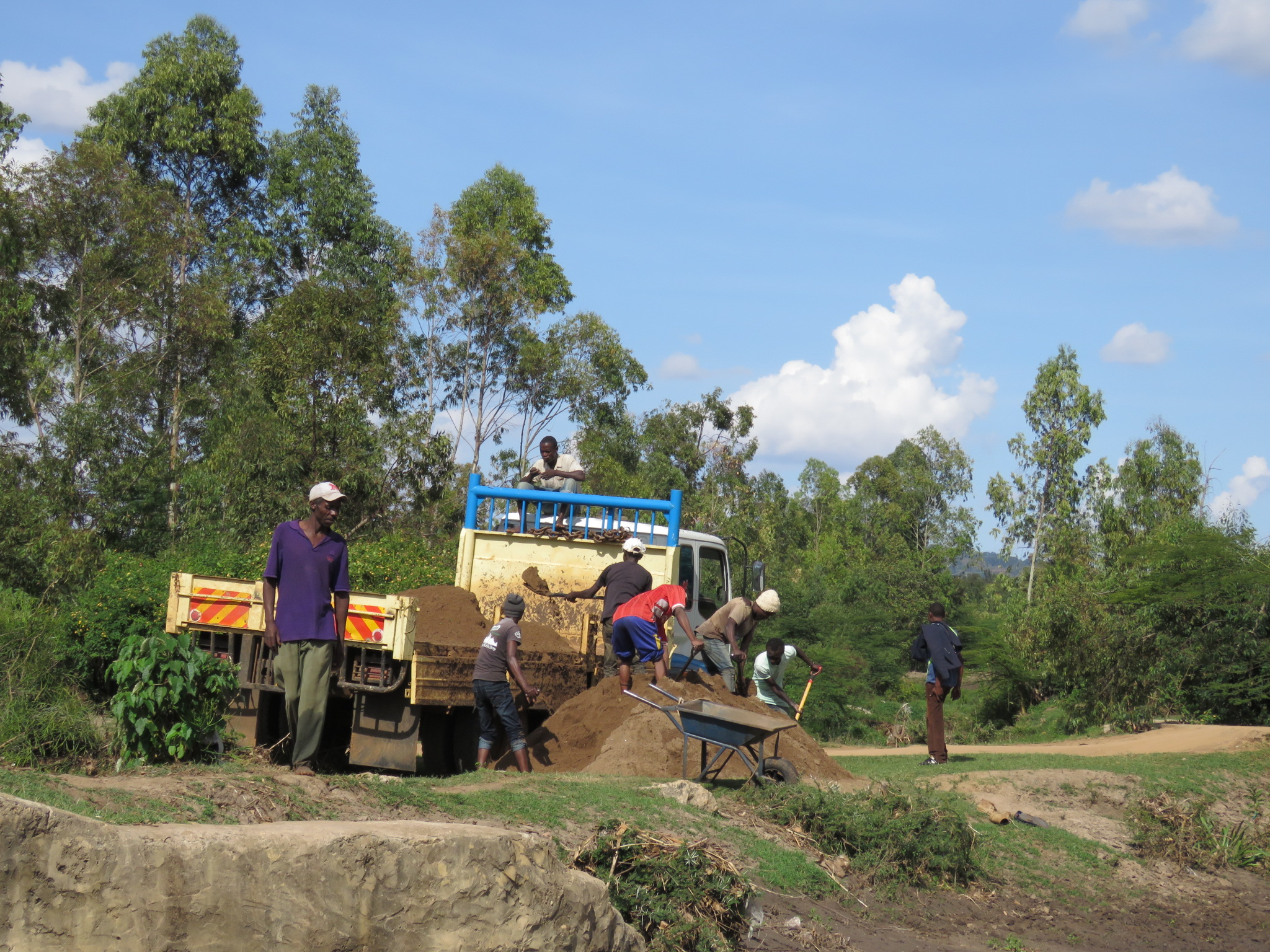 The picture is still related to the harvesting of sand depicted by the first photo. It just captures another angle. This is an image of "African people at work" from Kenya